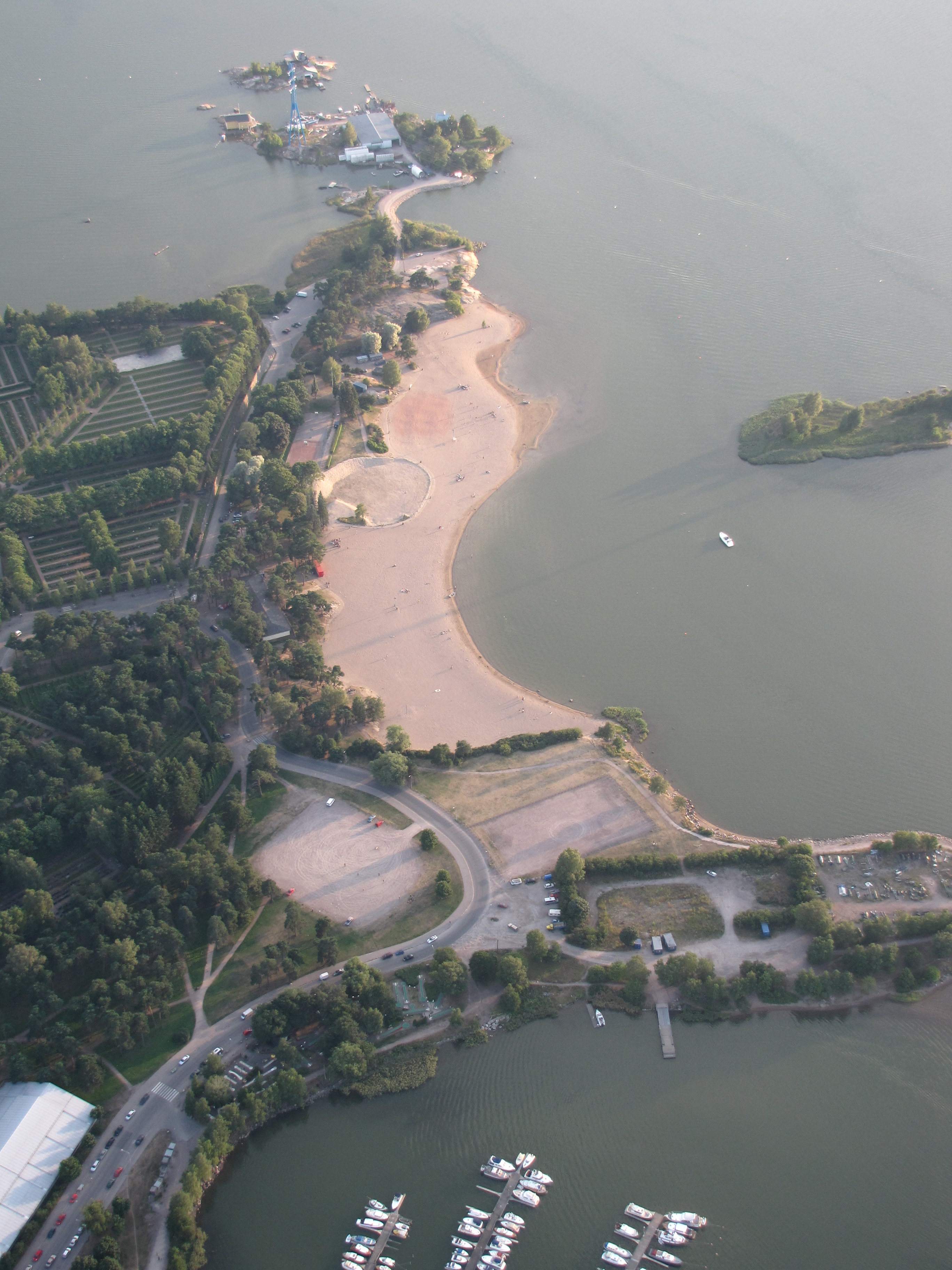 Hietaniemi beach photographed from a hot air balloon.